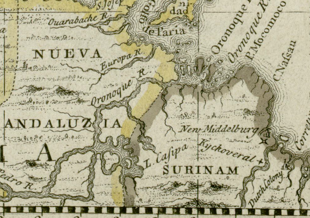 This is a section of a map that is part of the Darlington map collection housed in the Archives Service Center, University Library System, University of Pittsburgh, [1] Pittsburgh, PA US The original map from which this portion was taken can be found here.